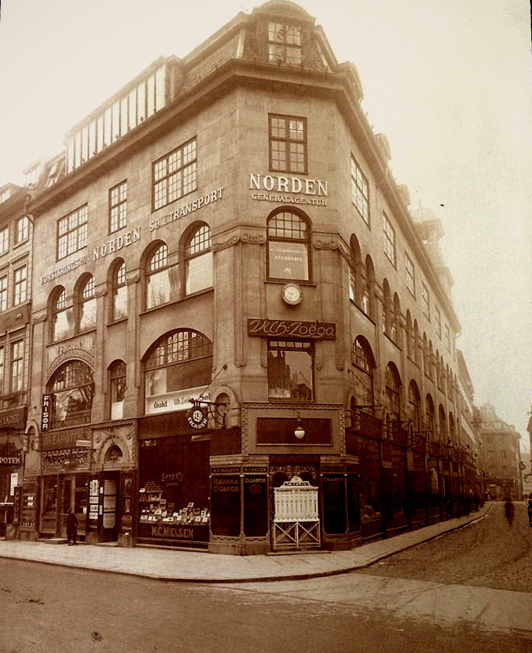 Løve Apotek at the corner of Amagertorv 33 and Hyskenstræde in Copenhagen, Denmark